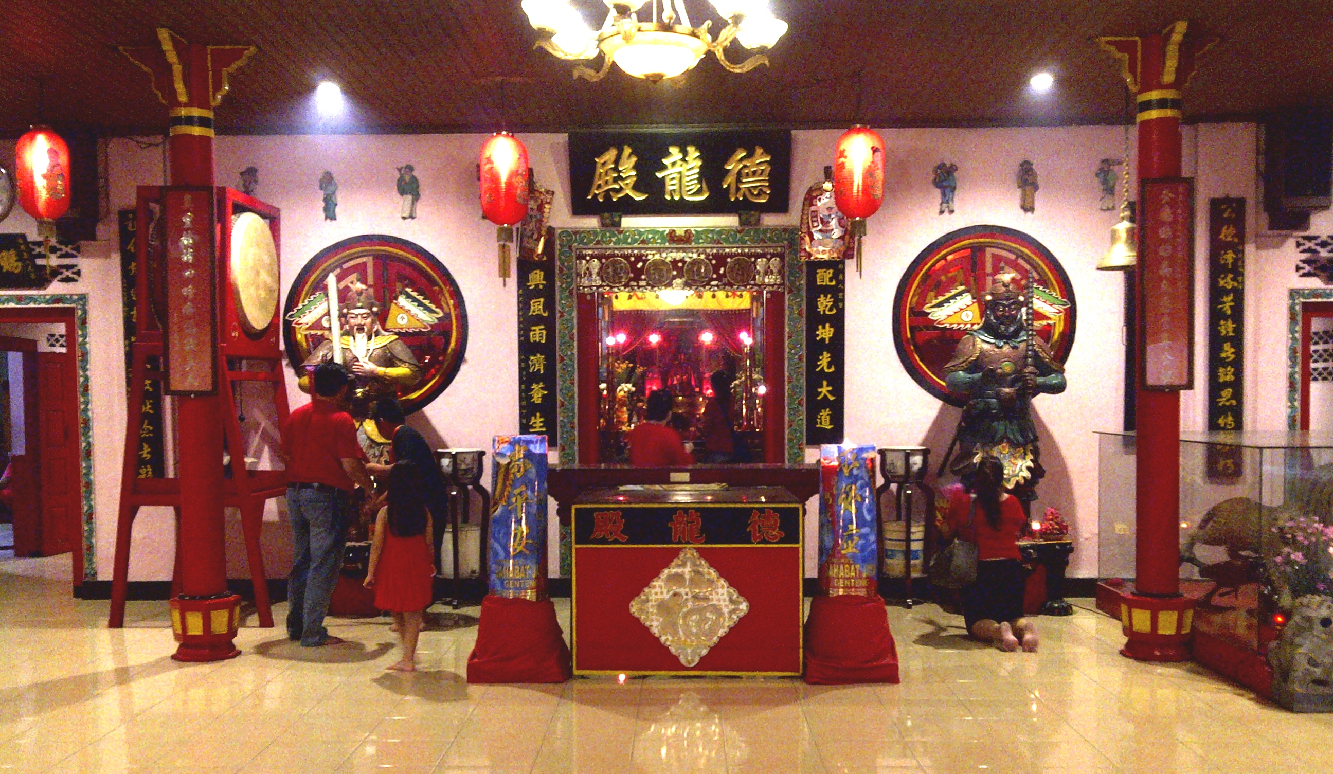 The front side of Tik Liong Tian Temple, Rogojampi, East Java, Indonesia